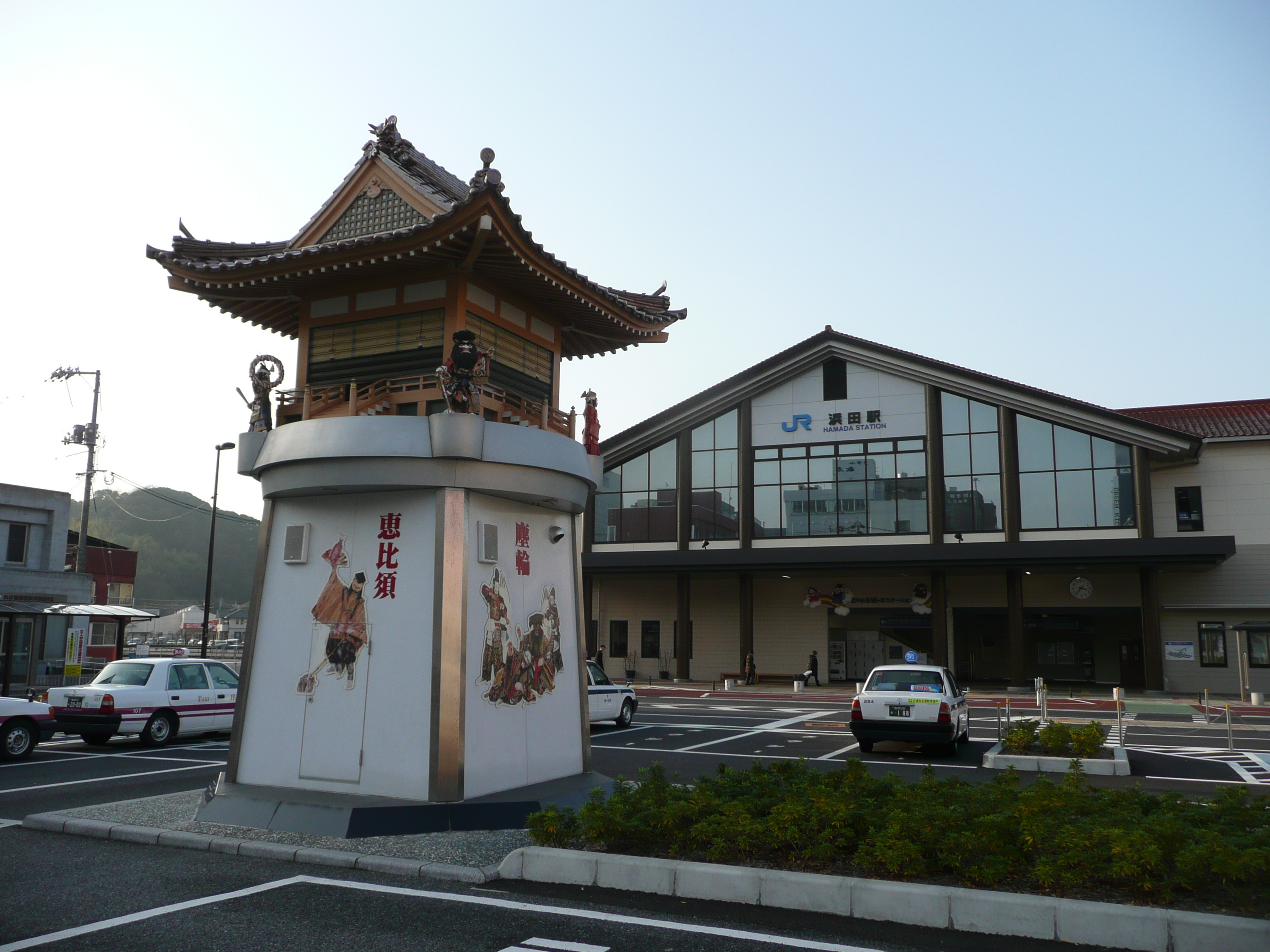 駅前広場にある神楽時計